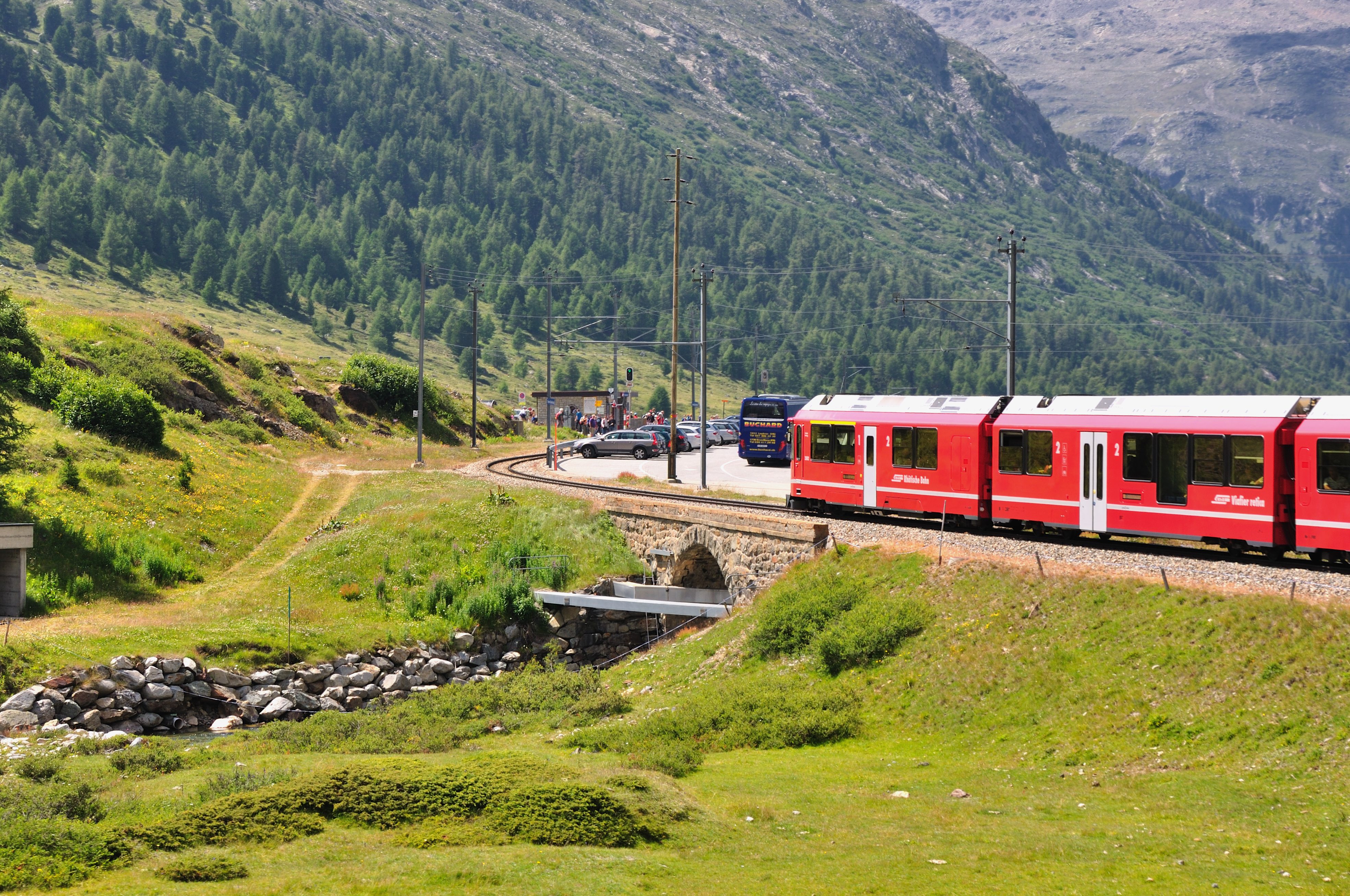 Switzerland, Graubünden, regional train arriving at Diavolezza station of the Bernina line of the Rhaetian Railways